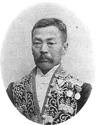 H. Hoshino, Professor of Japanese Language, Literature and History.